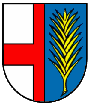 Coat of arms of Moos